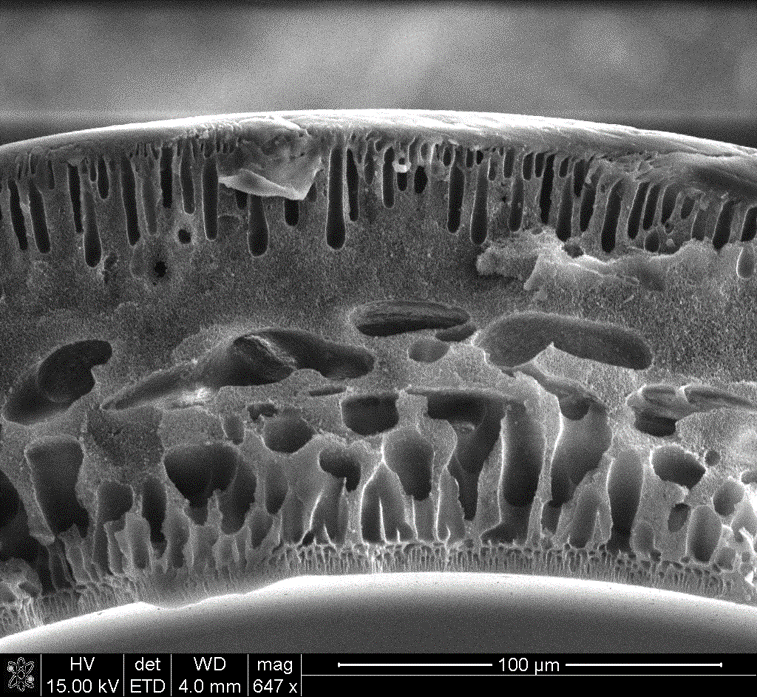 SEM micrograph of the wall of an asymmetric polysulfone hollow fiber membrane prepared by nonsolvent-induced phase separation.